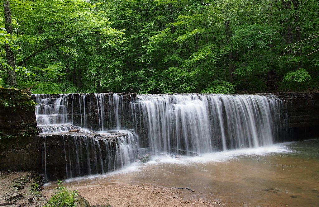 Hidden Falls on Prairie Creek during a heavy spring flow, Nerstrand Big Woods State Park, Minnesota, USA